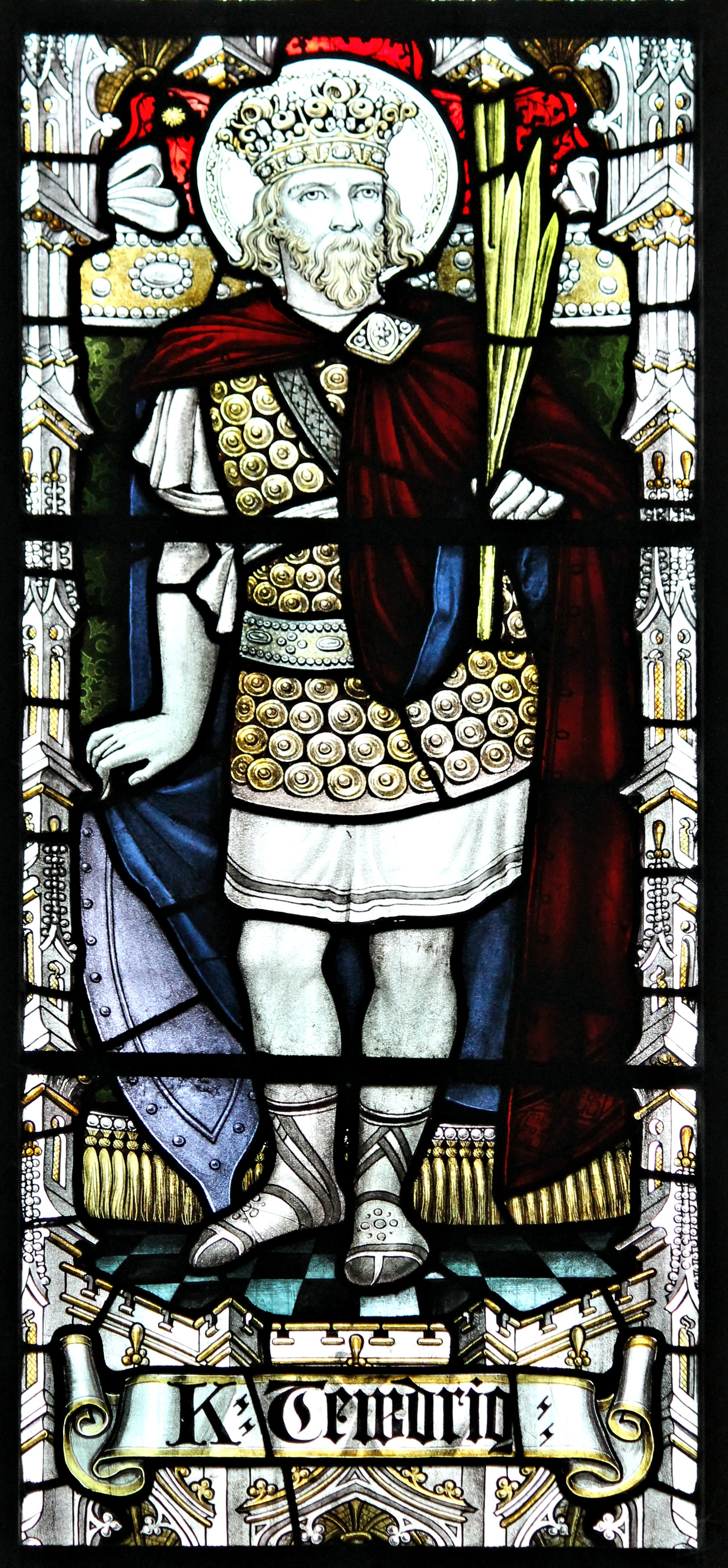 Photograph taken in Llandaf Cathedral, Cardiff, South Wales. King Tewdrig - king and saint who led his son's army against an intruding Saxon force.